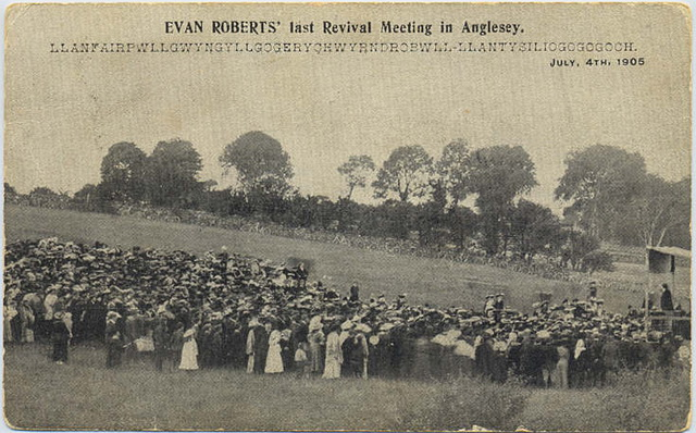 Evan Robert's last Revival Meeting in Anglesey